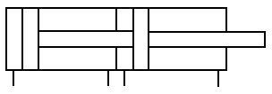 Symbol for tandem cylinder